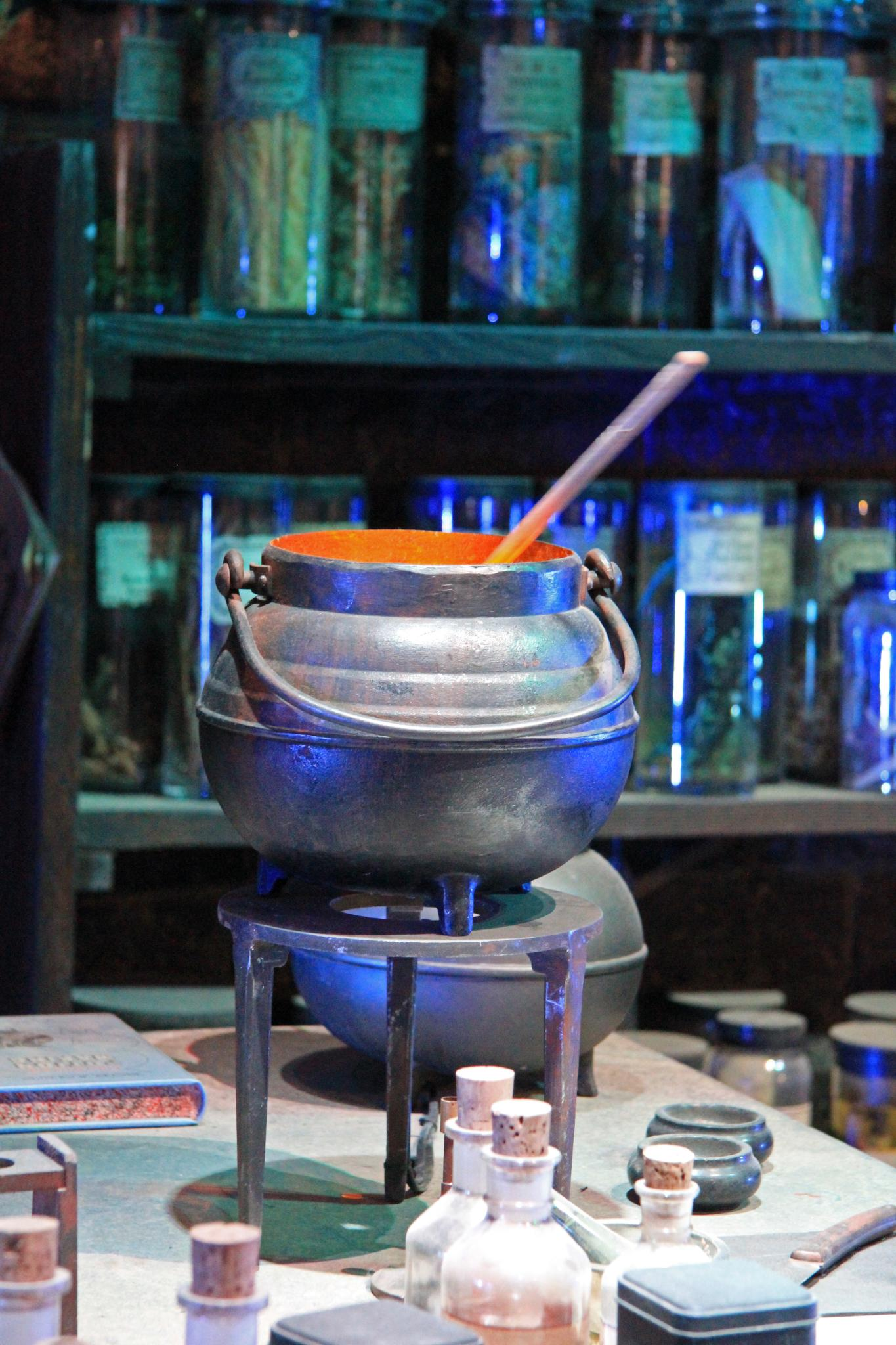 Warner Bros. Studio Tour London: The Making of Harry Potter.